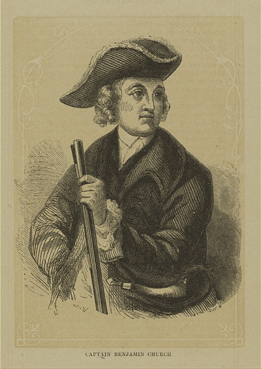 Captain Benjamin Church (c. 1675)